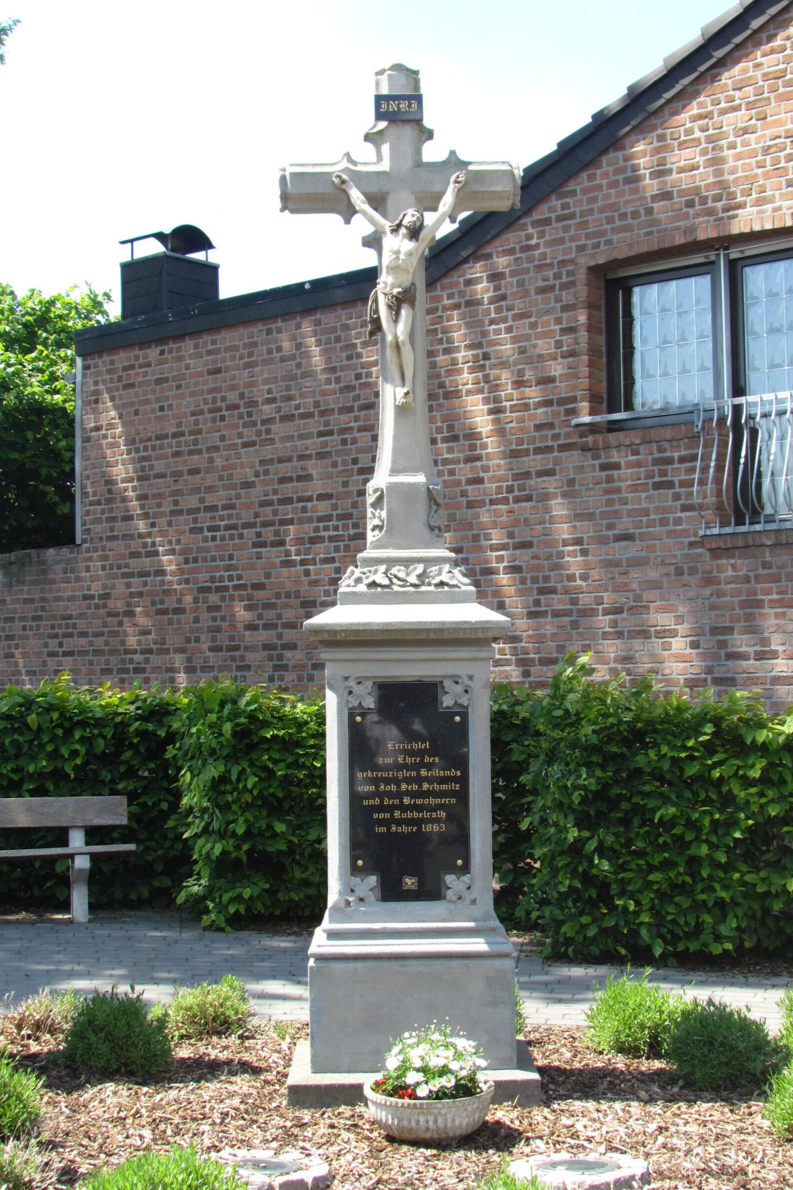 This is a photograph of an architectural monument.It is on the list of cultural monuments of Korschenbroich